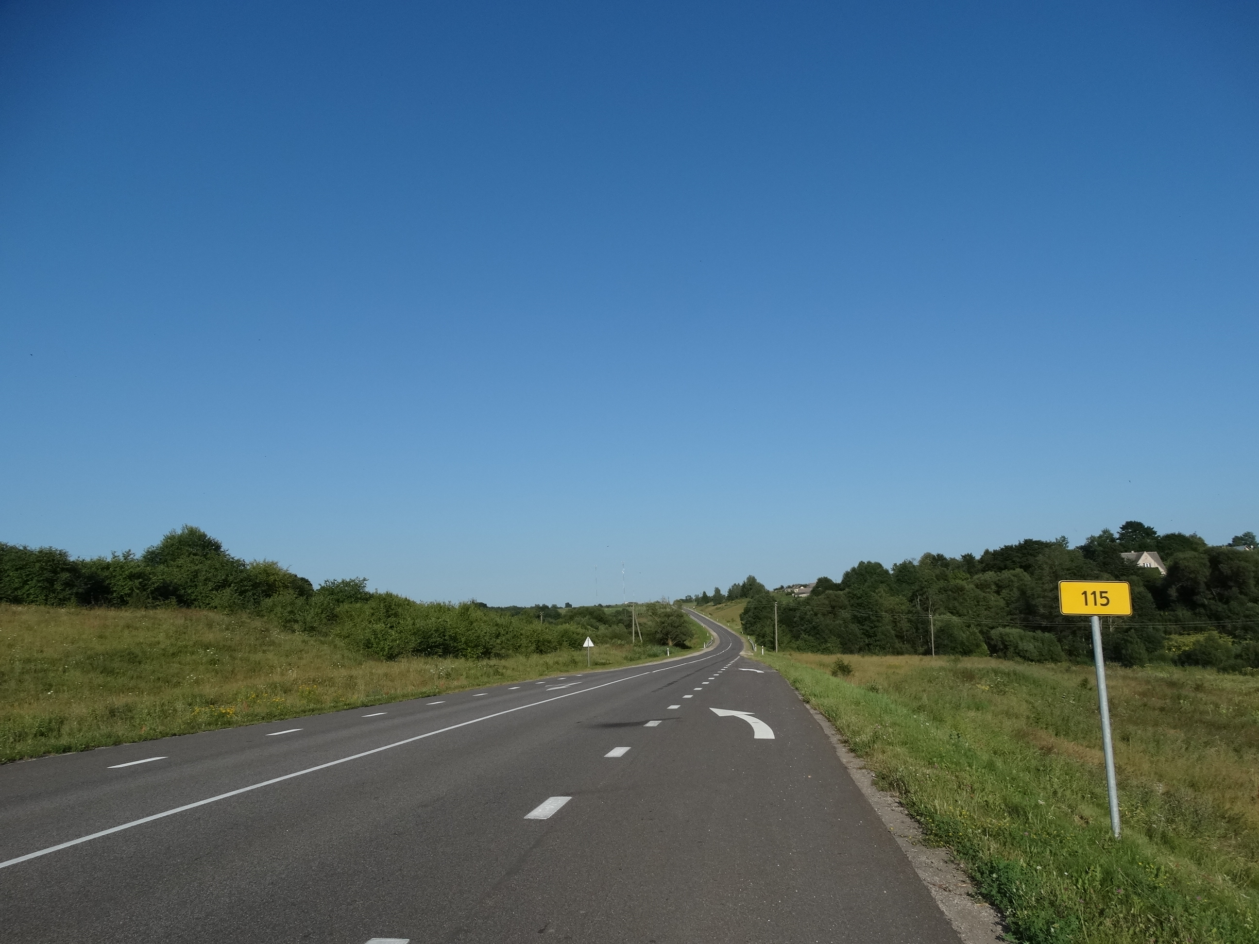 Road KK115, Ukmergė district, Lithuania